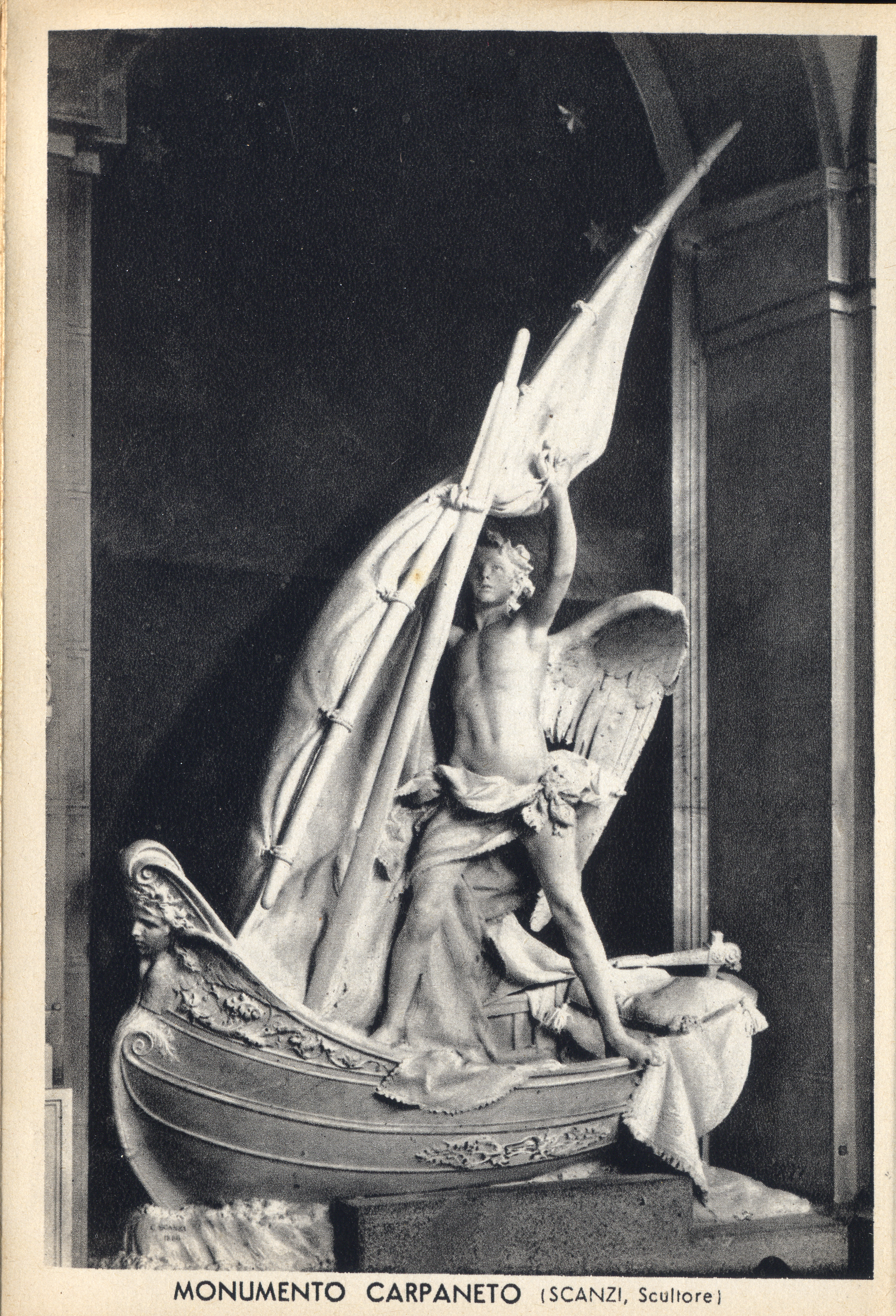 Cemetery monument, tomb of Giacomo Carpaneto (1811-1878) and family, XIXth century, restored in 2016 (postcard image c.1895)